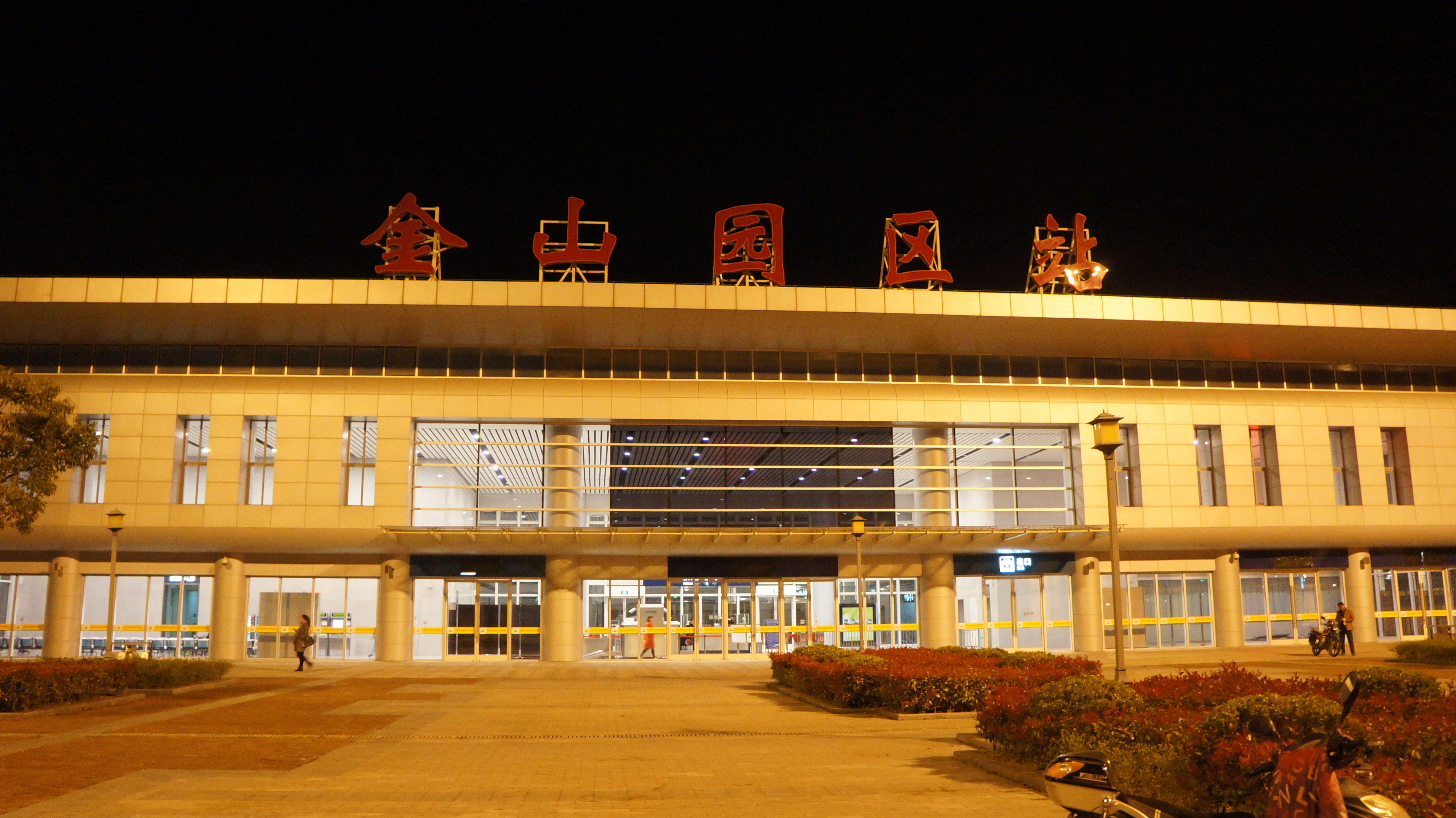 201603 Facade of Jinshanyuanqu Station